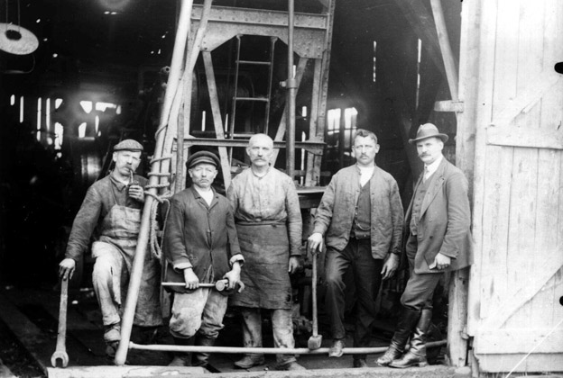 miners mine Eduard & Amalia